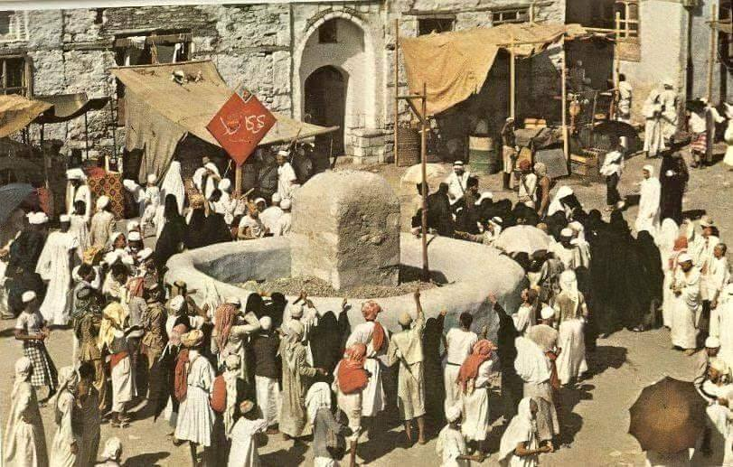 Hajj 1965